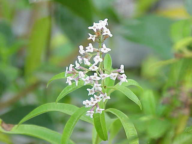 Species: Aloysia triphylla Family: Verbenaceae Image No. 2